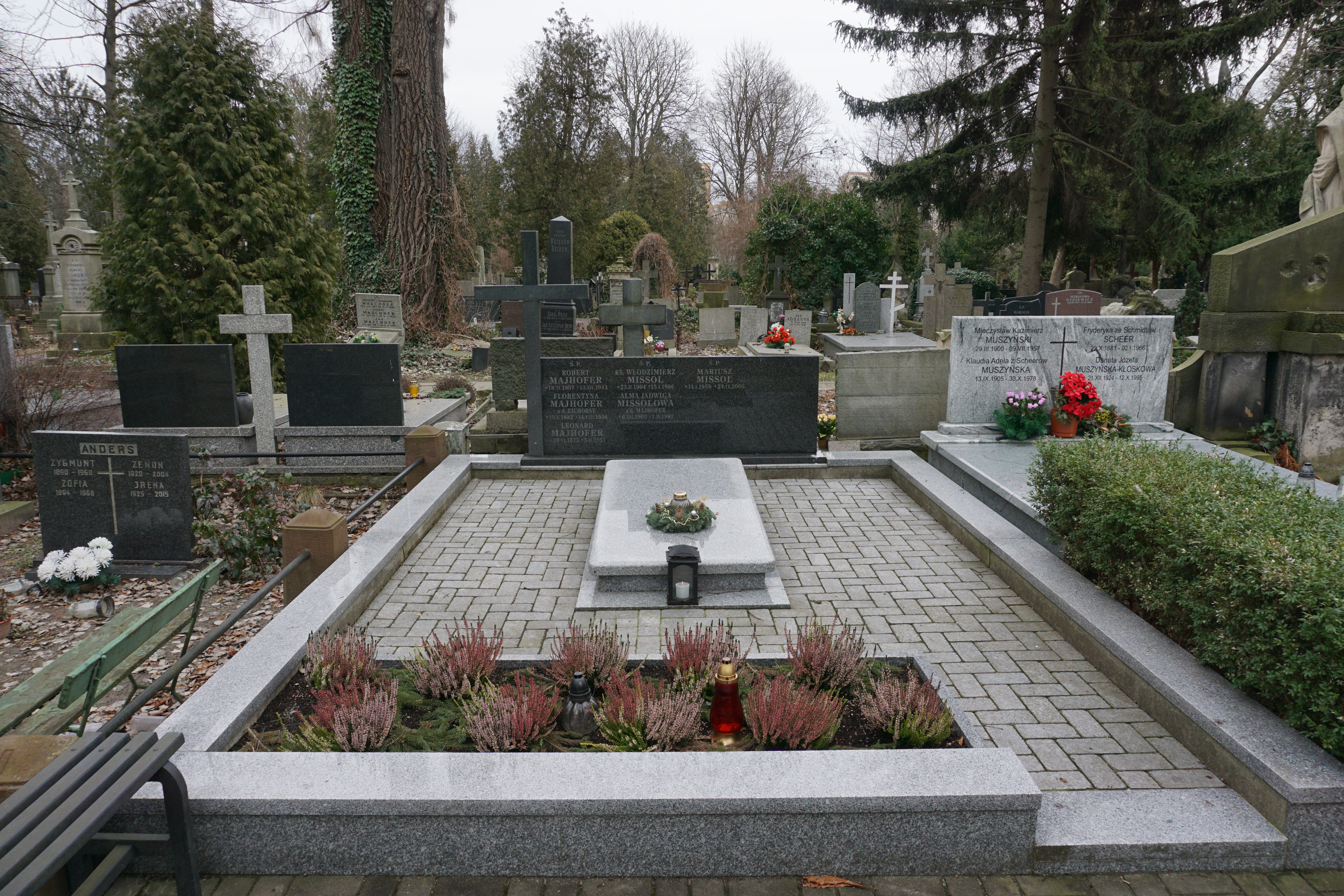 The grave of Włodzimierz Missola at the Evangelical-Augsburg Cemetery in Warsaw (avenue 11, grave 38a)